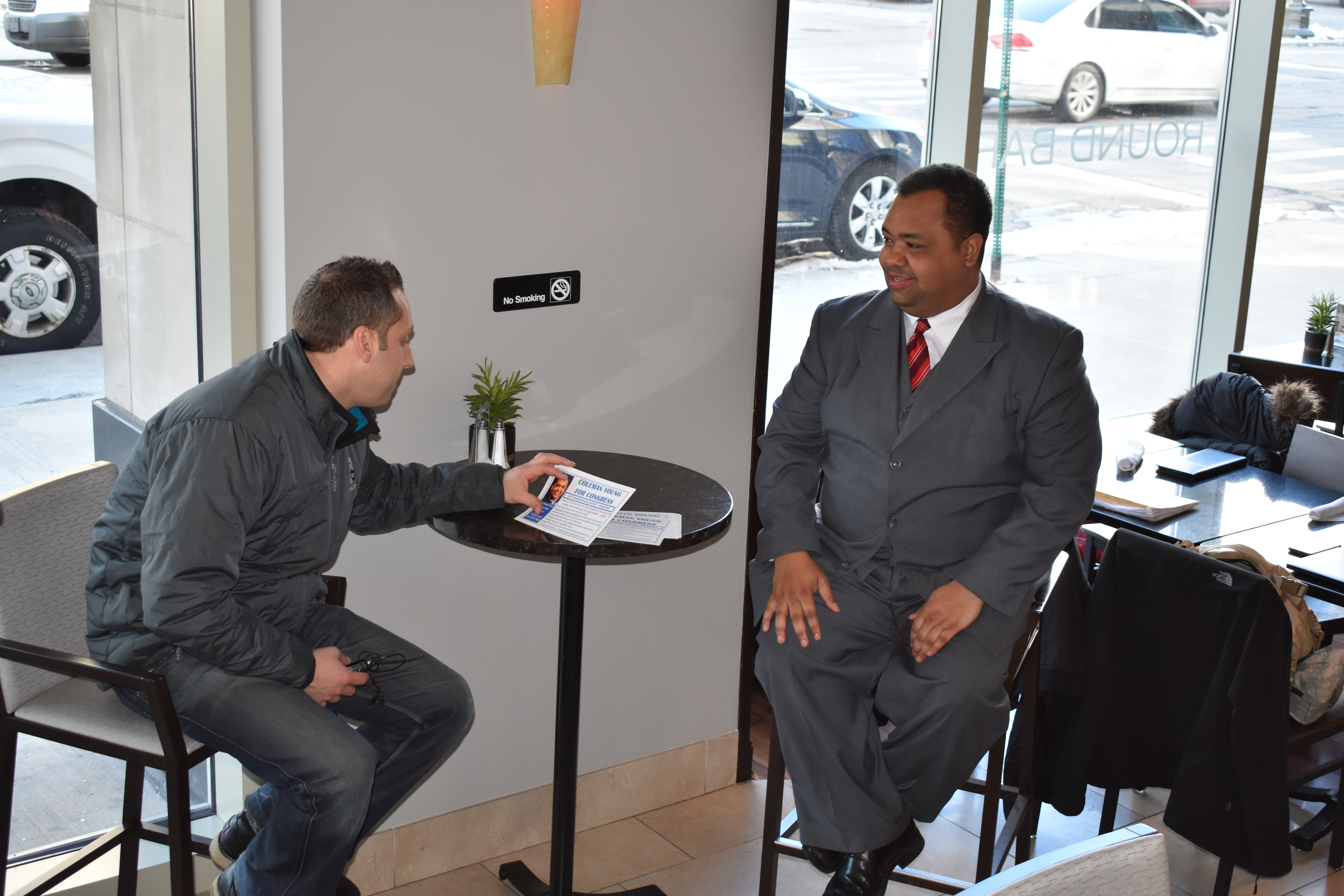 Senator Coleman Young II (D-Detroit) interviews with Channel 4 about SB 884